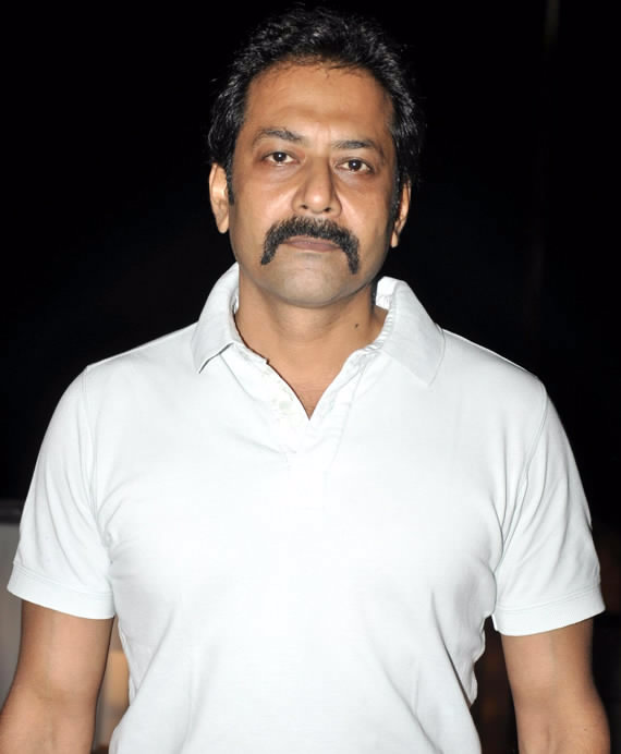 Deepraj Rana at Producer Rahul Mittra's birthday bash